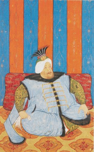 Mustafa II